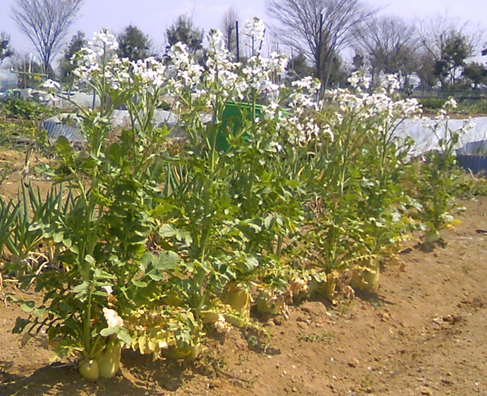 blooming daikon(japanese radish).at Saitama,Japan